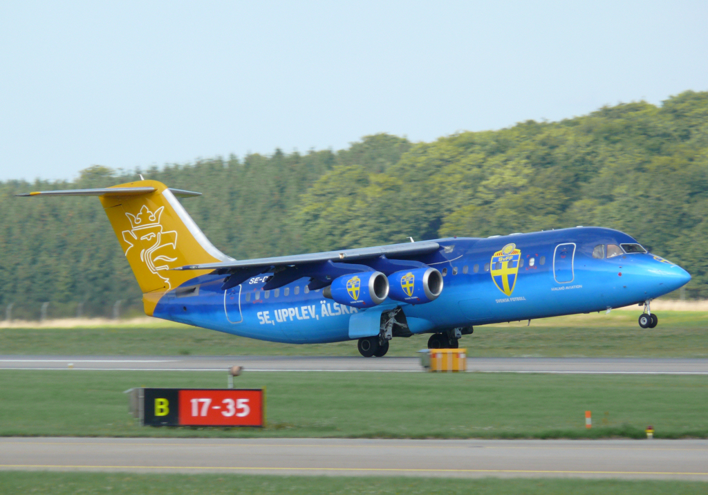 SE-DSU carrying the special paint scheme of the Swedish football association.